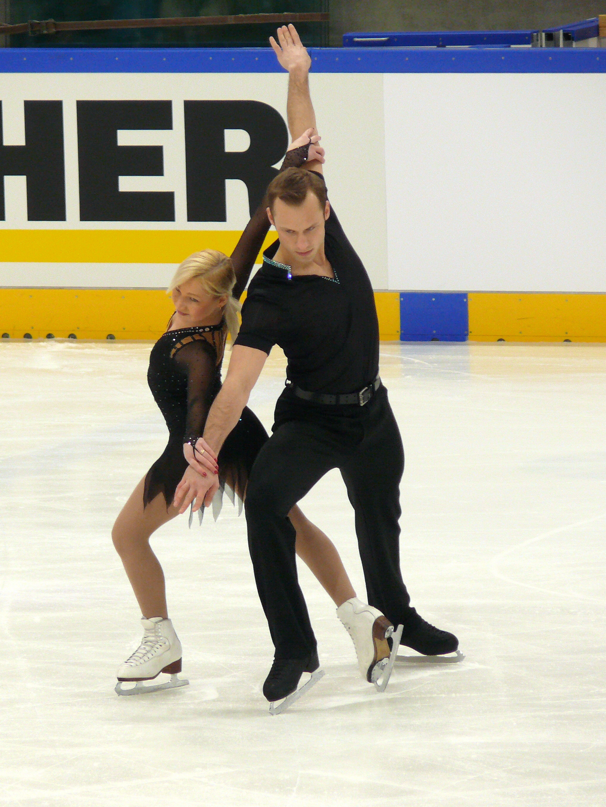 Ekaterina Vassilieva and Daniel Wende at the short program of the German championships 2008 in Dresden